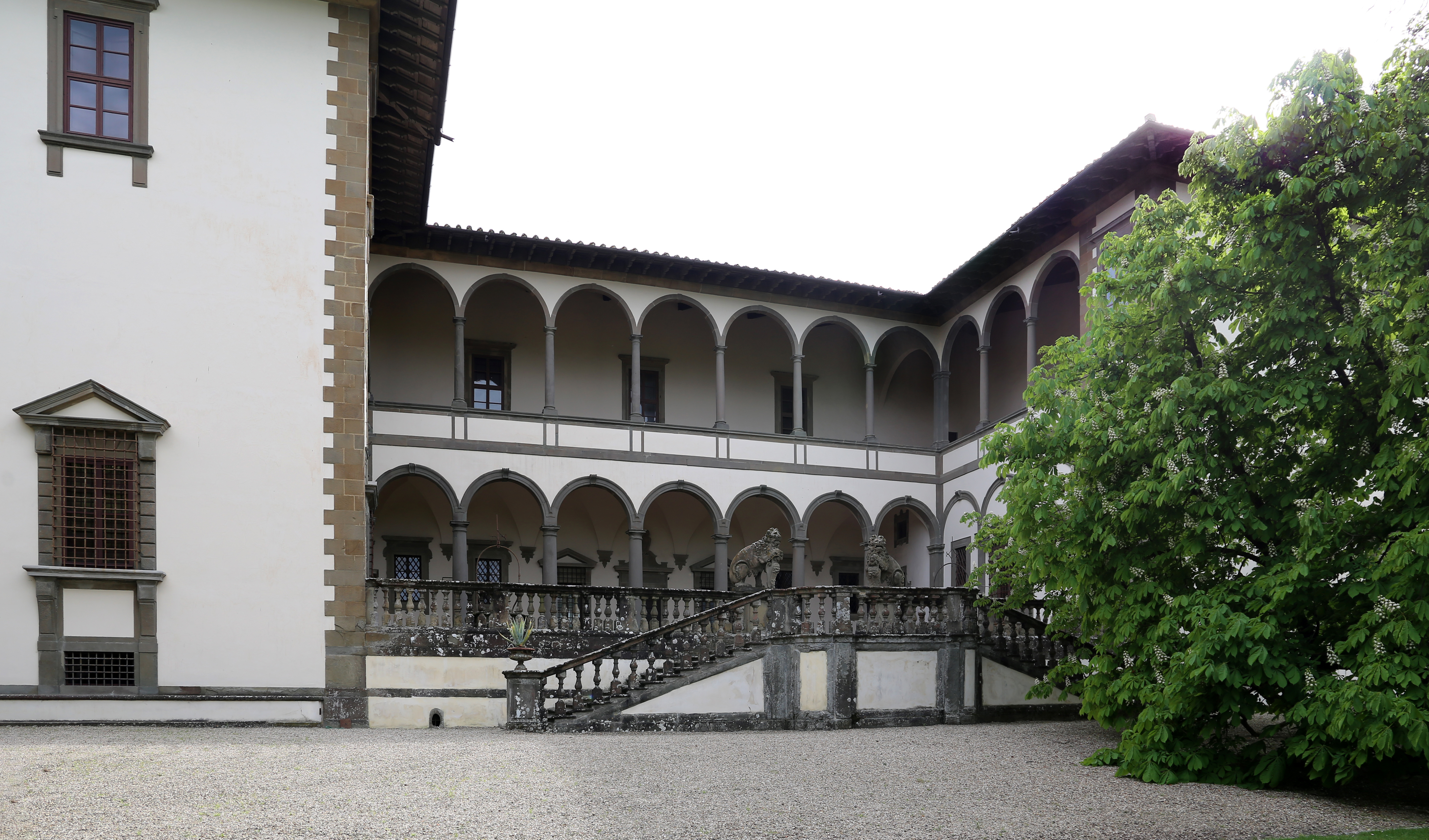 Villa I Collazzi